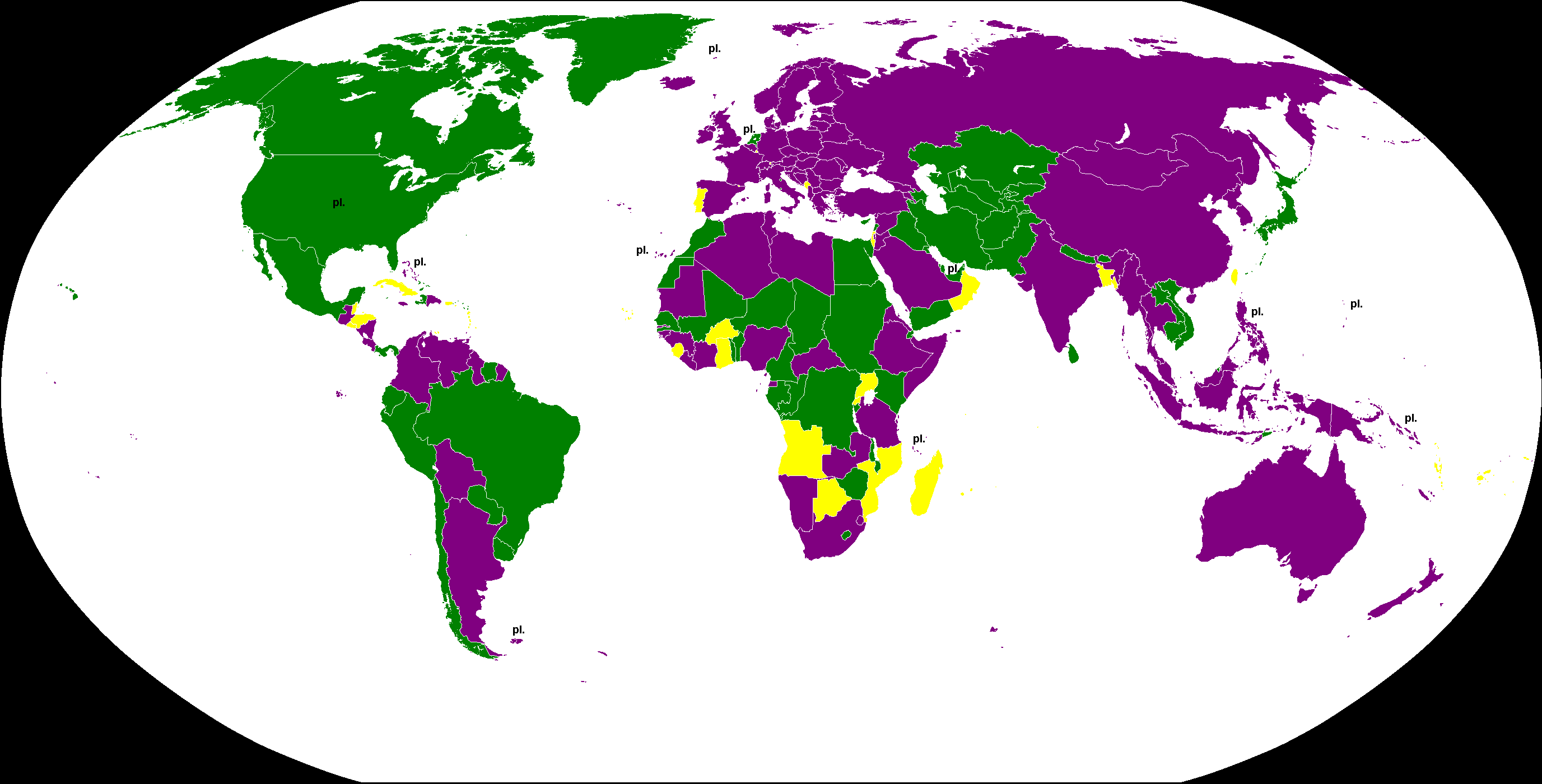 The gender of countries in the Portuguese language: countries with masculine names are green, countries with feminine names are purple and countries with neutral names are yellow. "pl." indicates a plural name. Note: Reino Unido, United Kingdom is deemed as Inglaterra, England, as it is popularly called in Brazil, including País de Gales, or Wales, and both are of masculine names.